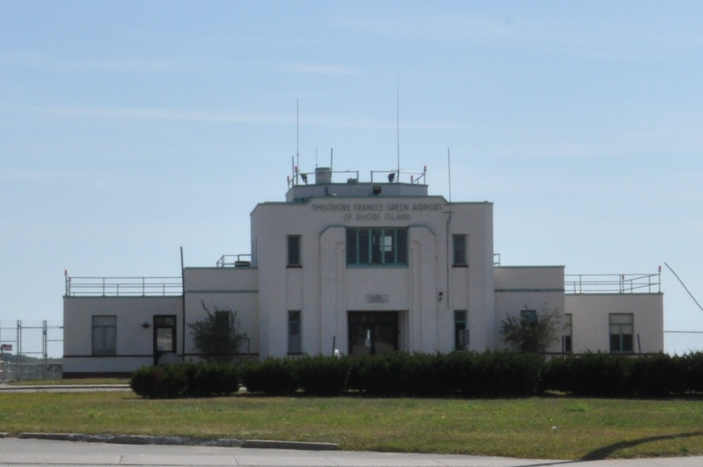 Rhode Island State Airport Terminal, Warwick, Rhode Island.